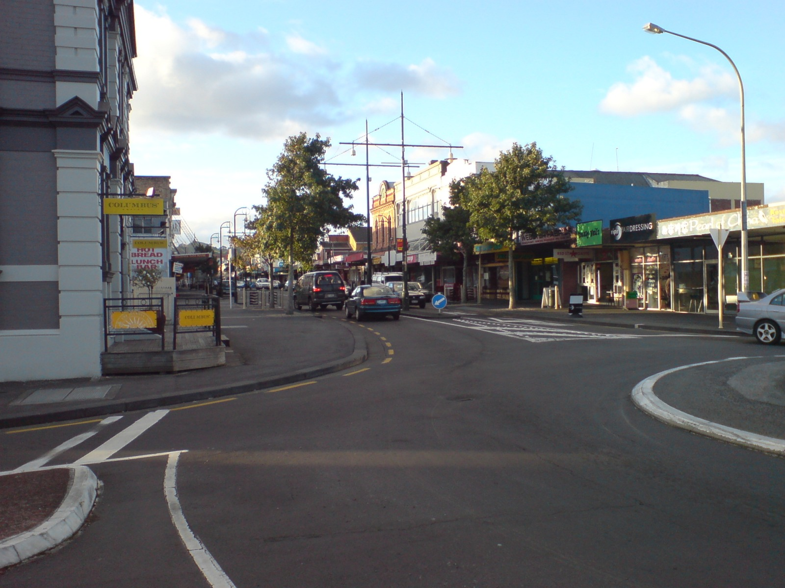 Onehunga Mall (street) in Onehunga, a southern suburb of Auckland City, New Zealand. Looking north.